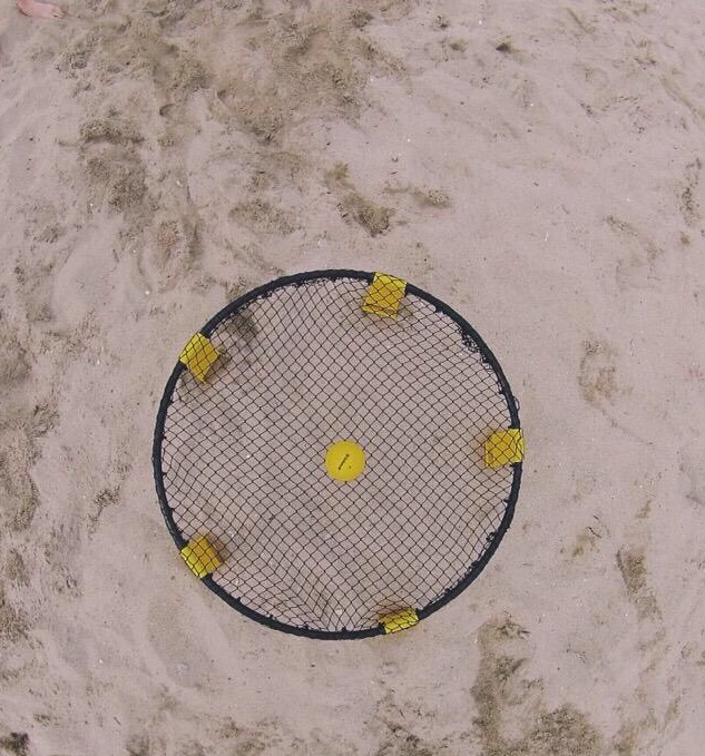 A Spikeball net and ball